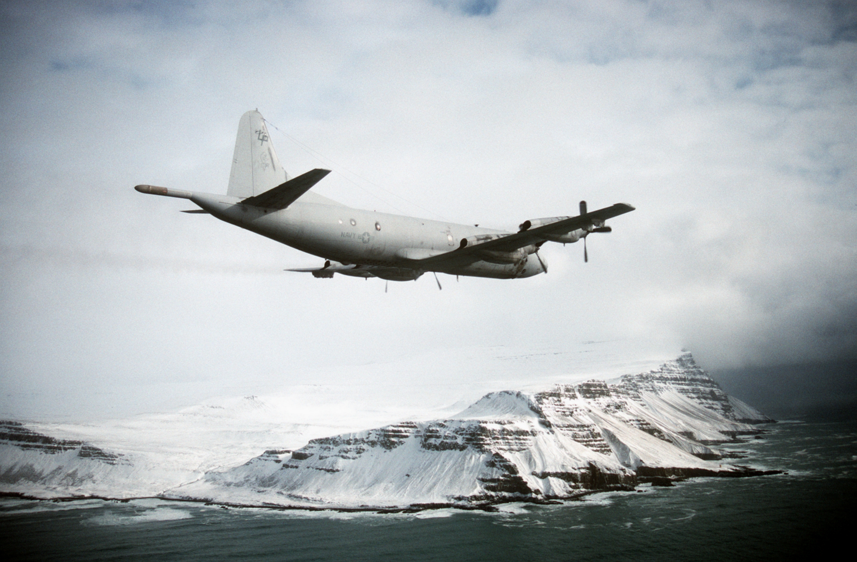 A U.S. Navy Lockheed P-3C Orion from Patrol Squadron VP-49 Woodpeckers flying over the ocean near Iceland in 1993.